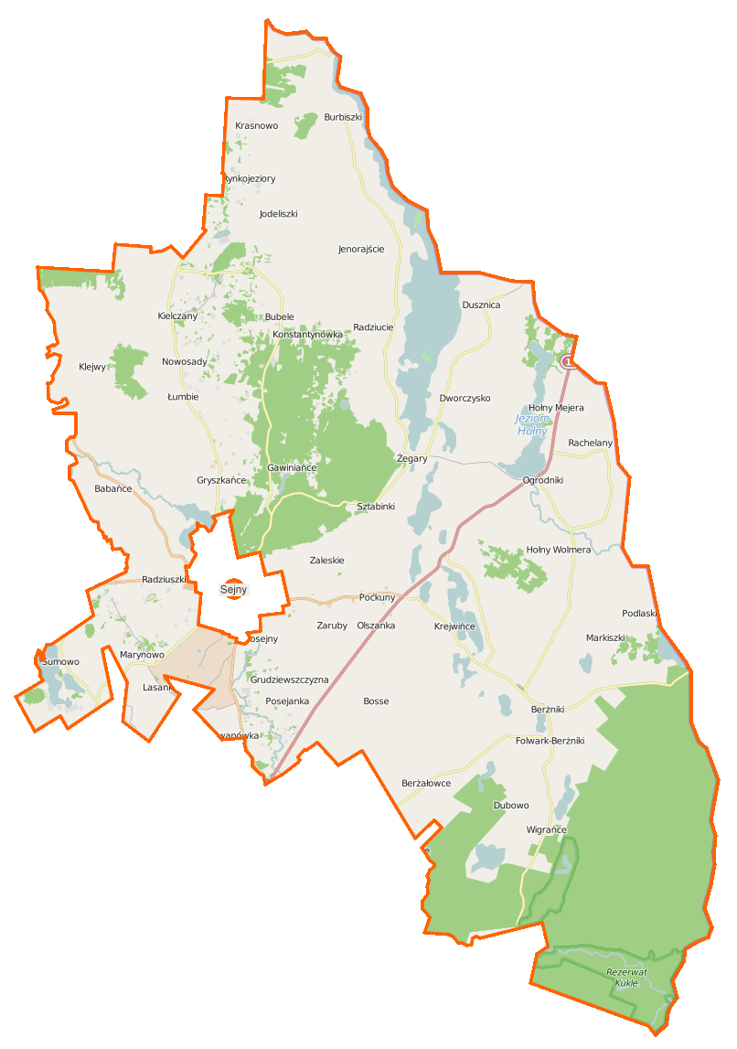 Map of Gmina Sejny, Poland This map of Sejny (gmina wiejska) was created from OpenStreetMap project data, collected by the community. This map may be incomplete, and may contain errors. Don't rely solely on it for navigation.